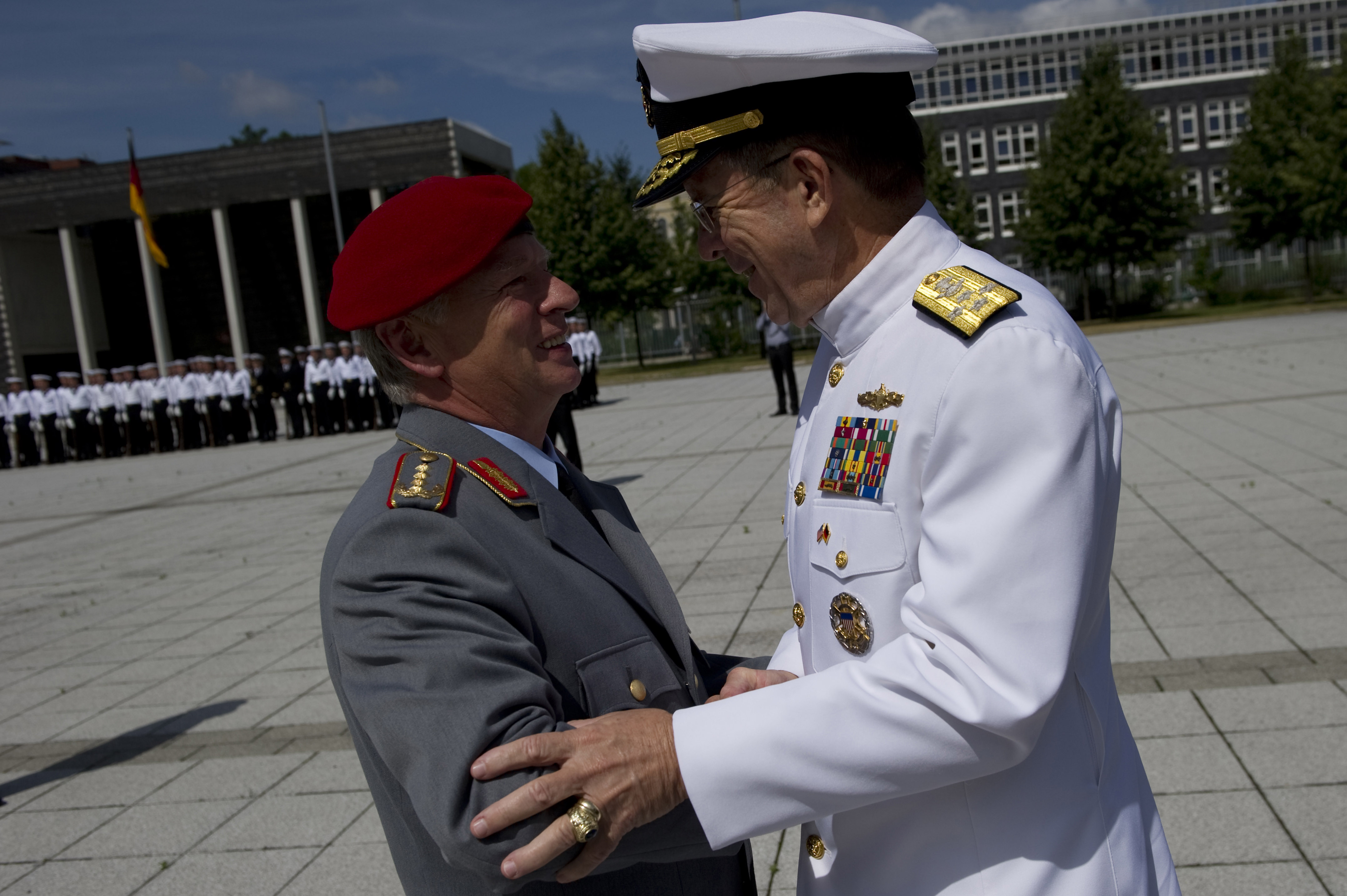 Chairman of the Joint Chiefs of Staff Adm. Mike Mullen greets Chief of Staff of the German Armed Forces Gen. Volker Wieker in Berlin, Germany, on June 9, 2011. Mullen is on a seven-day trip visiting Egypt and Europe to meet with counterparts and leaders.